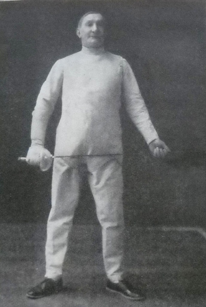 László Gerentsér (1873-1942), Hungarian fencing master and writer